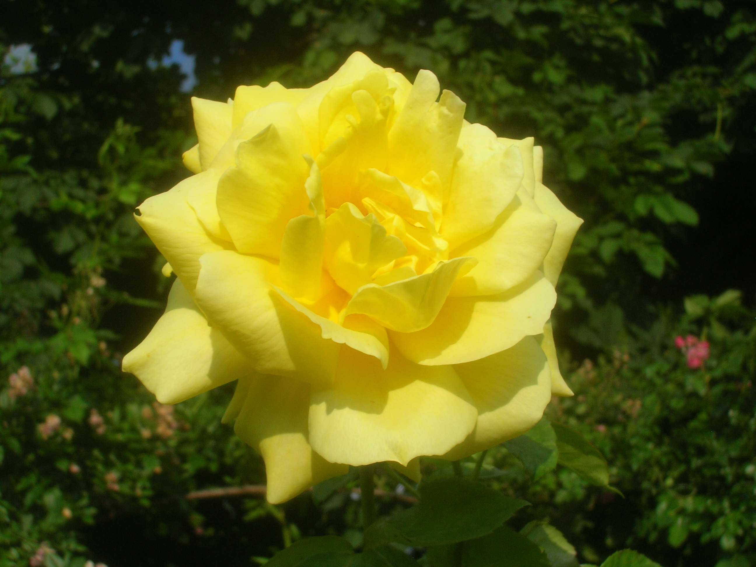 Rosa 'Oregold' in the Volksgarten in Vienna. Identified by sign.